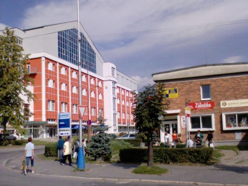 Svit (Slovakia)